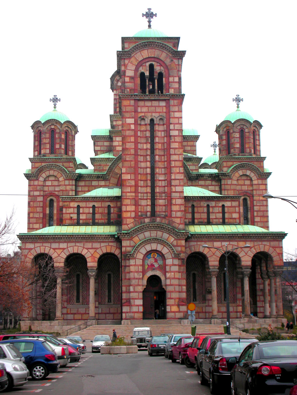 Church of Saint Mark in Belgrade.